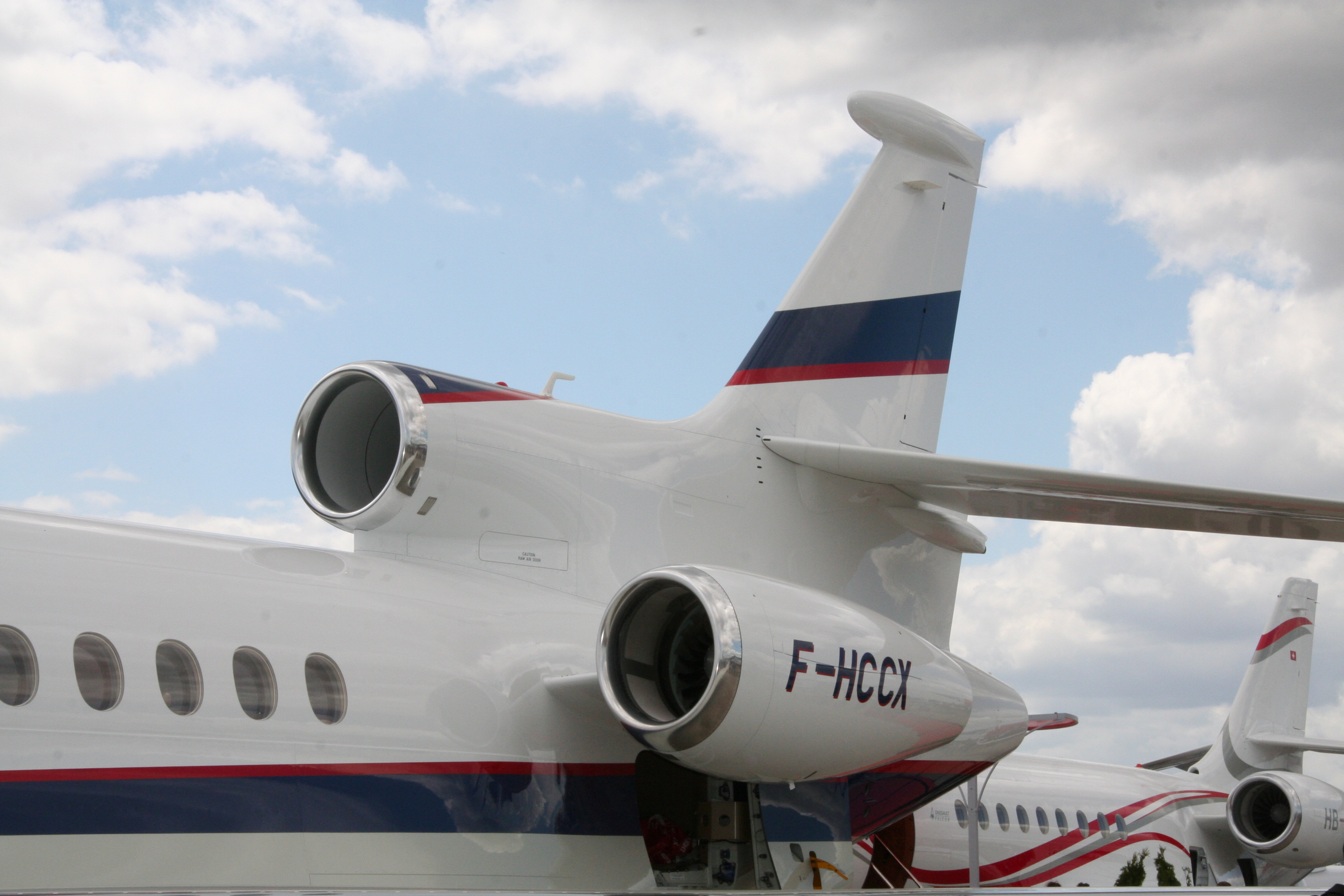 Dassault Falcon 7X - Paris Air Show 2009